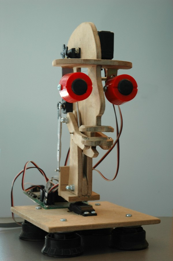 Animatronic